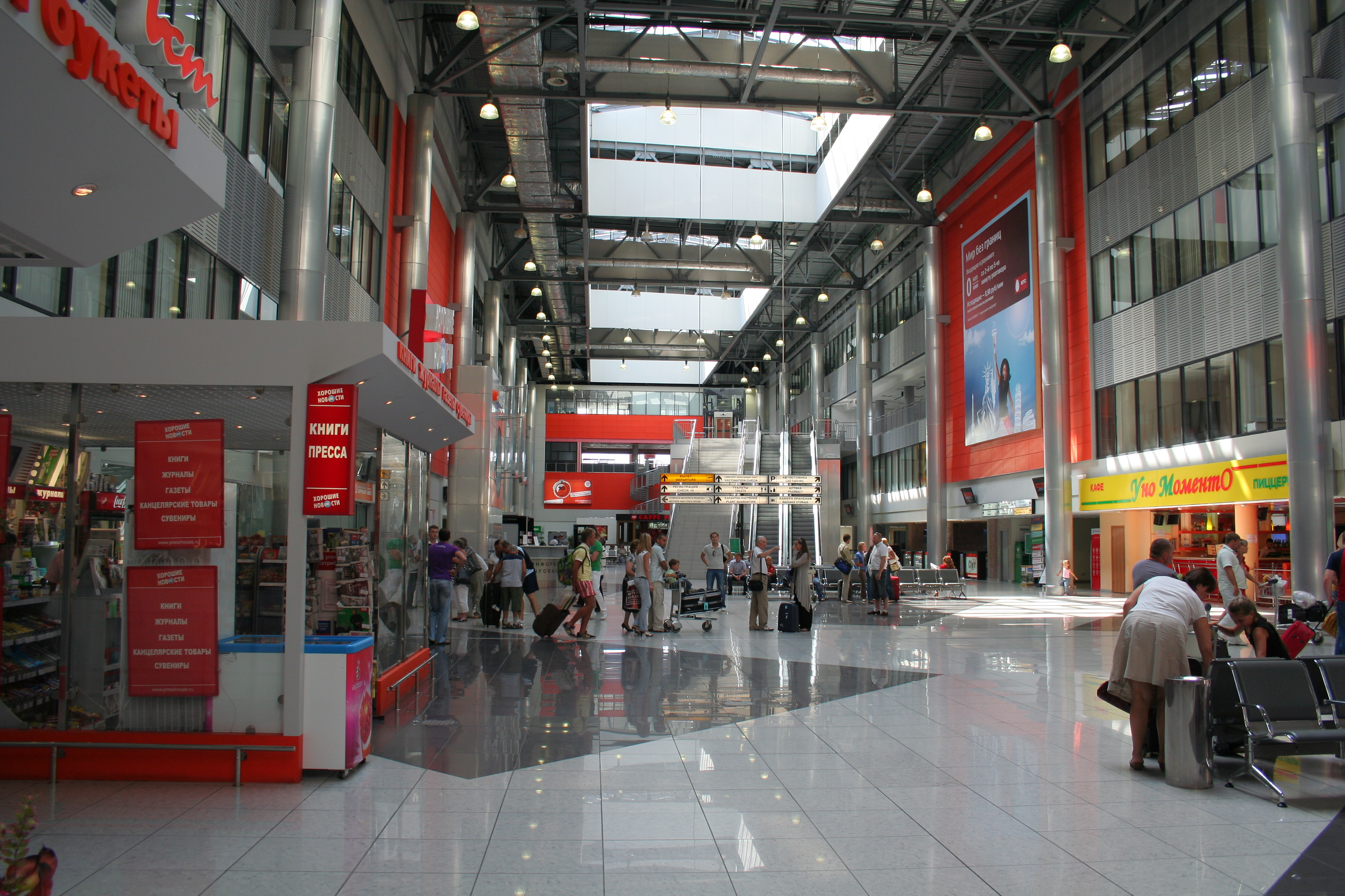 Sheremetyevo Airport of Moscow. Terminal C. View inside.